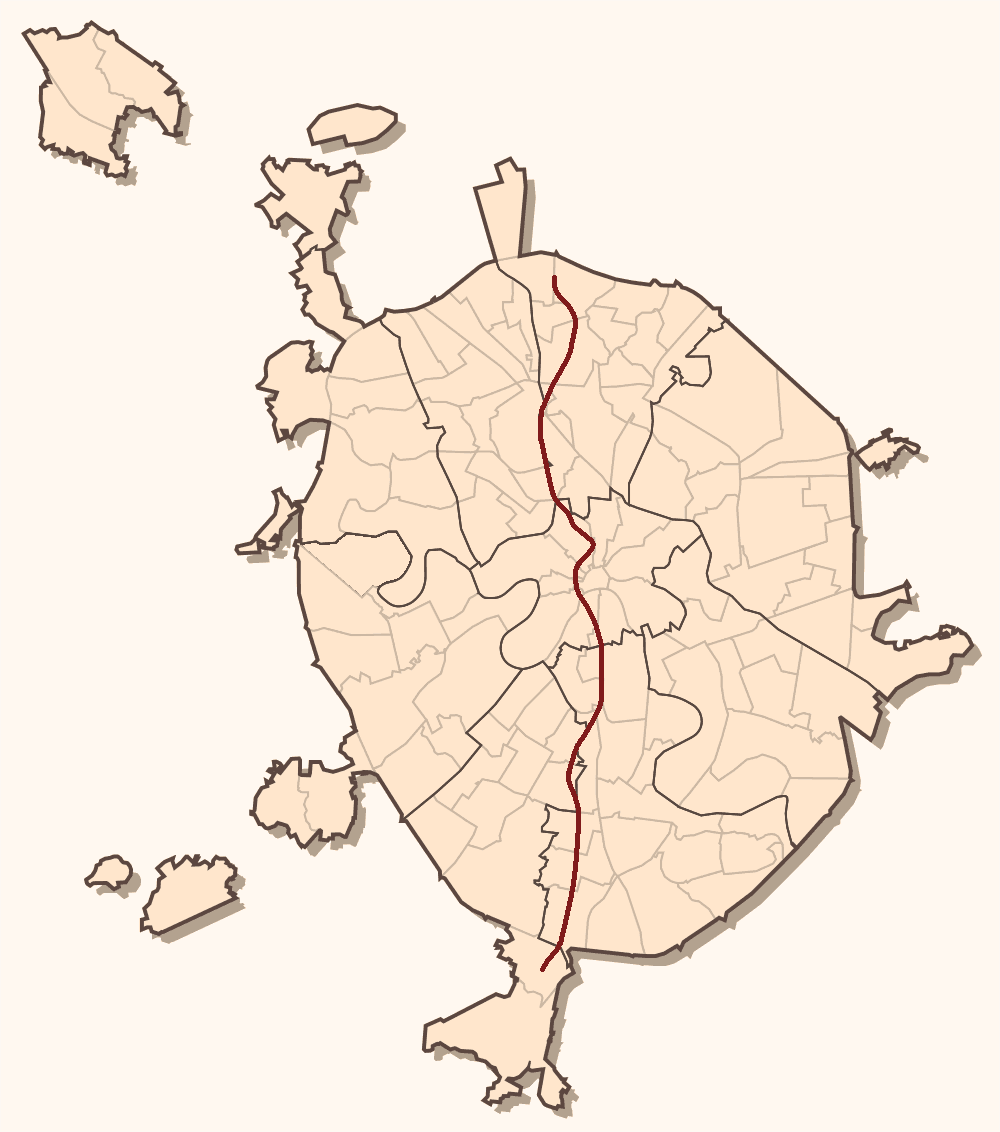 Map of Serpukhovsko-Timiryazevskaya line of Moscow Metro on Moscow map